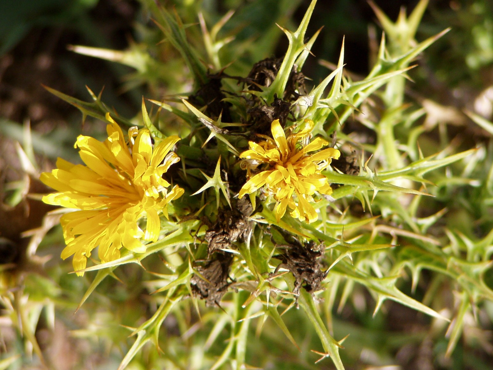 Spanish Oyster Plant, Common Goldenthistle